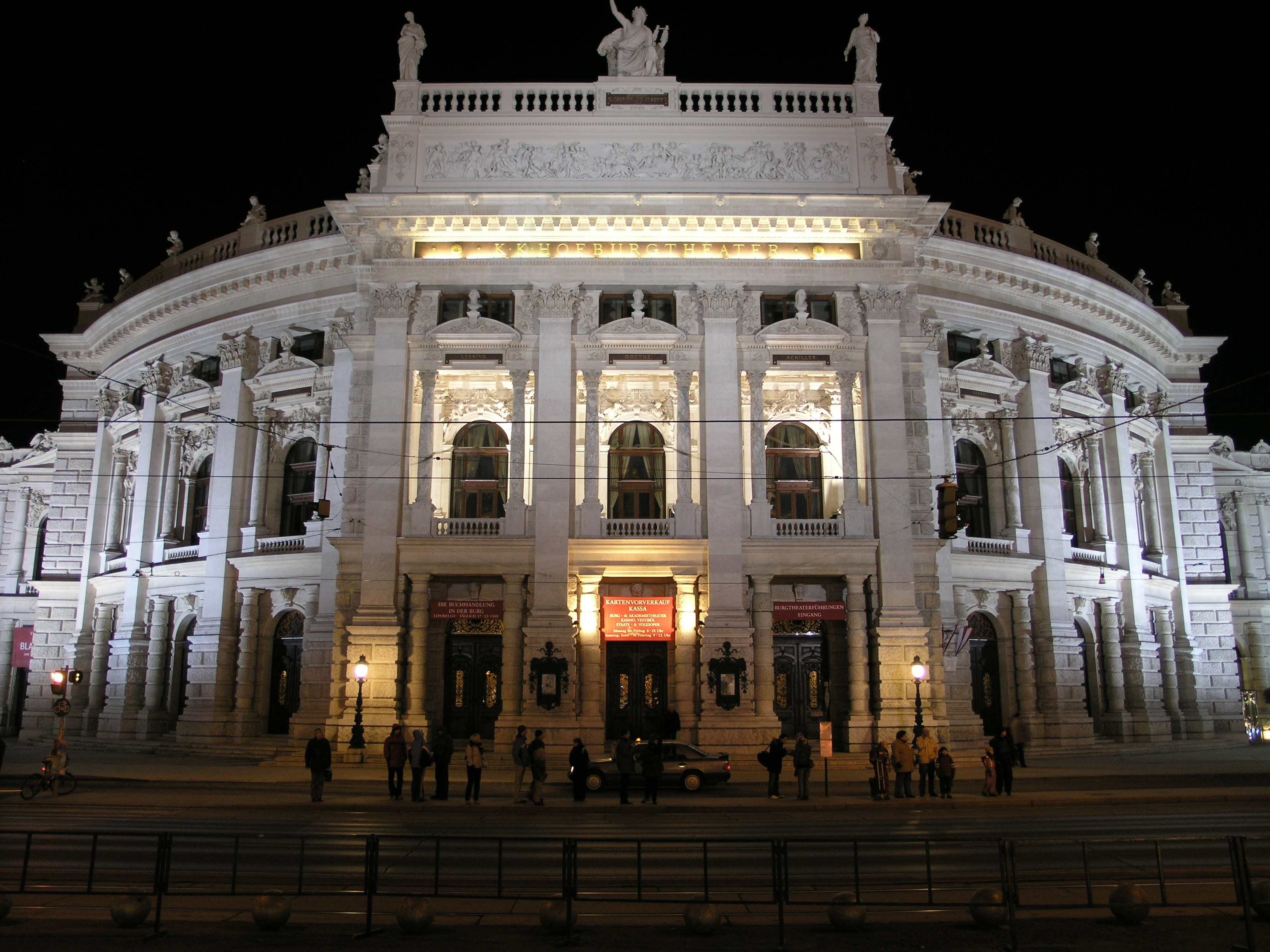 Austria, Vienna, Burgtheater